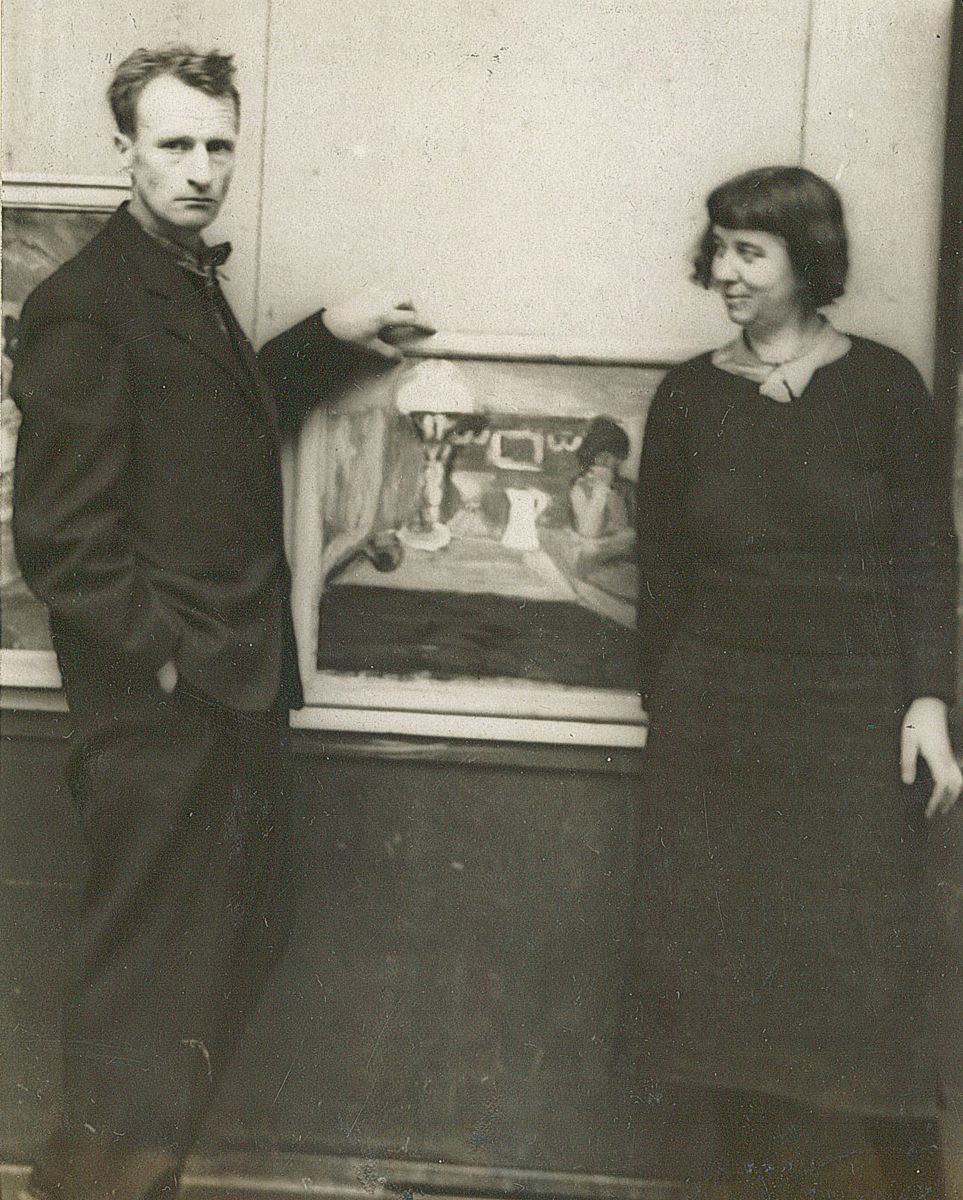 Norwegian artists Hans and Hannah Ryggen, about 1935-1940.